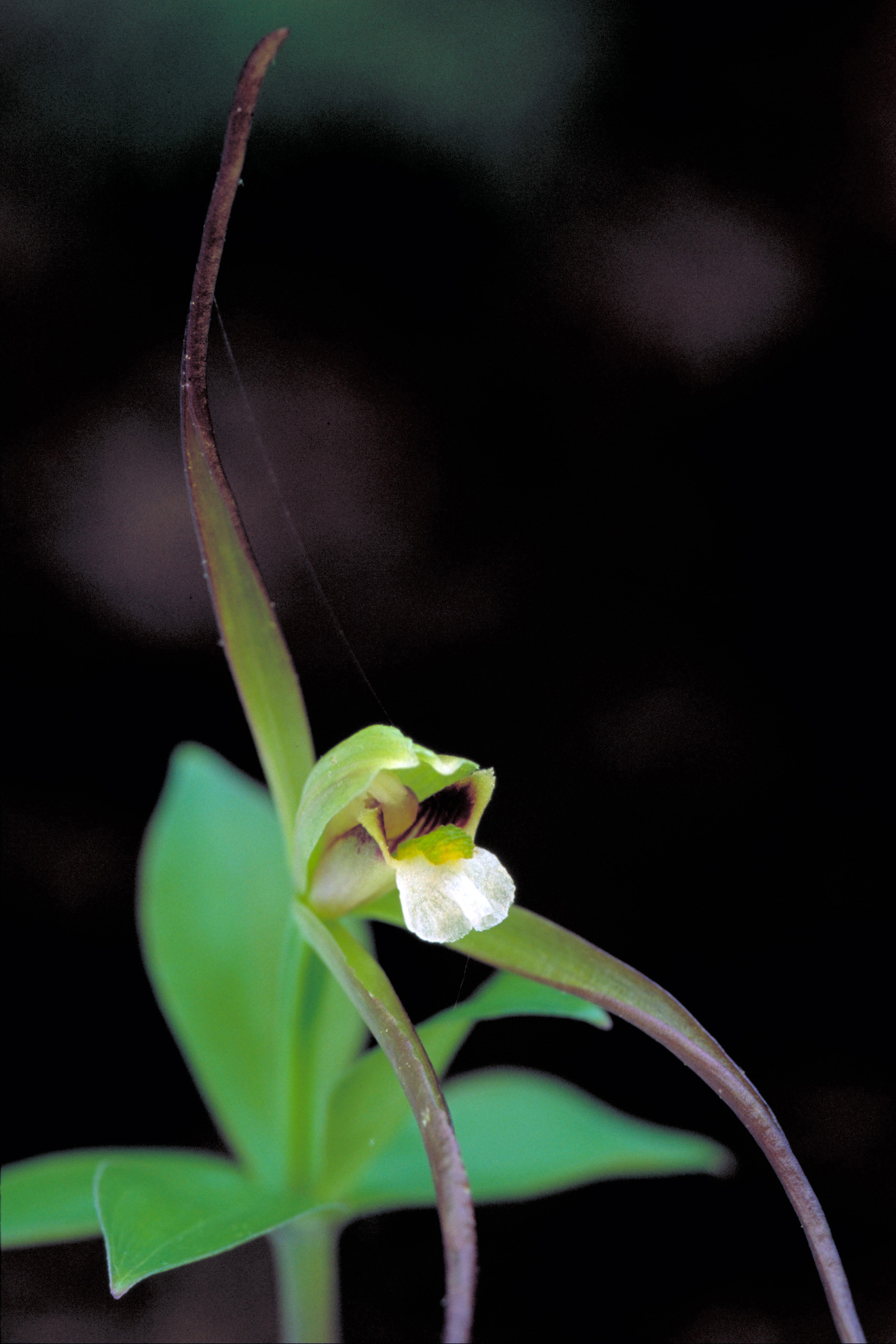 Isotria verticillata - Large Whorled Pogonia - Scanned to Kodak CD from 35 mm original slide. This version of the photo was cropped by the uploader